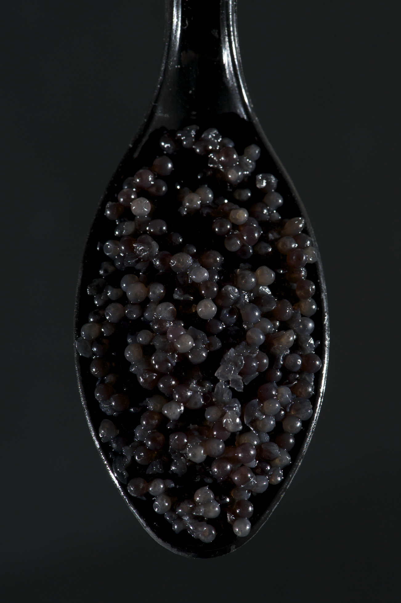 Caviar on Black